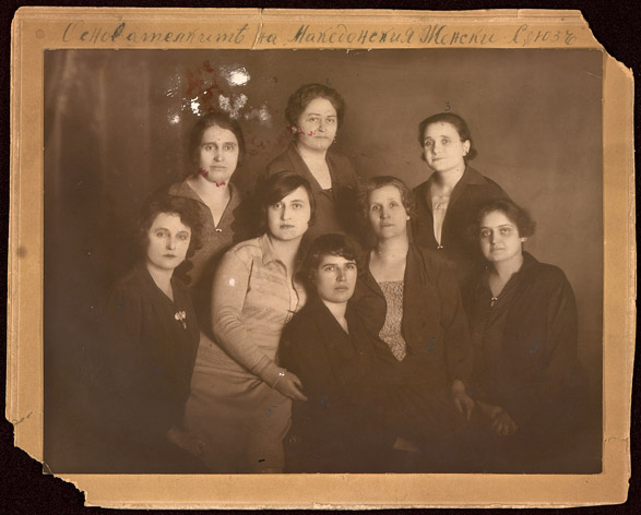 Macedonian Women's Union Founders